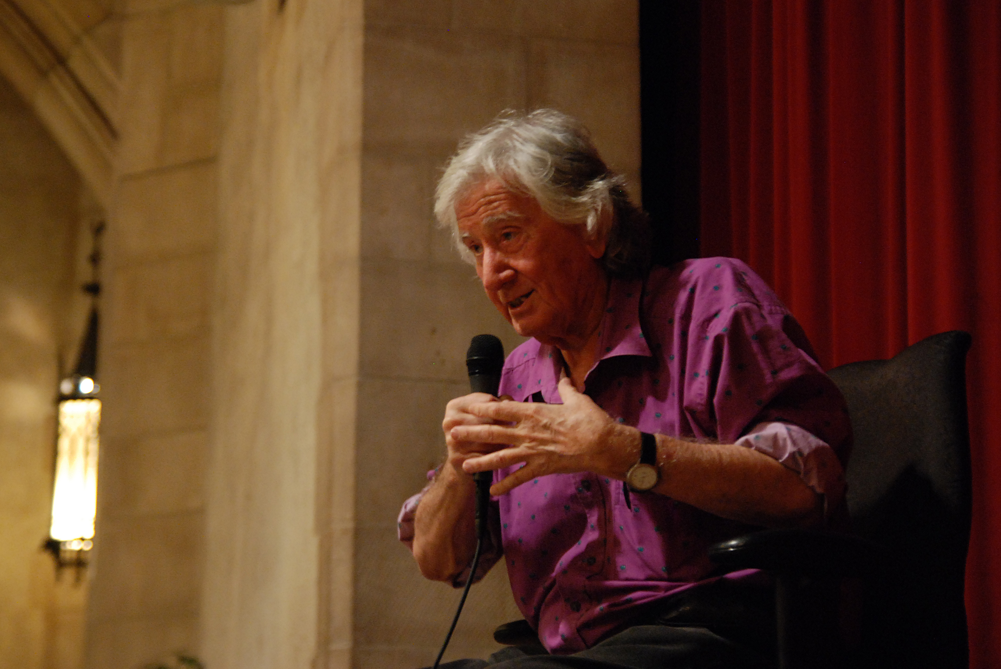 Brazilian theater director and writer Augusto Boal presenting his Theater of the Oppressed at Riverside Church in New York City.